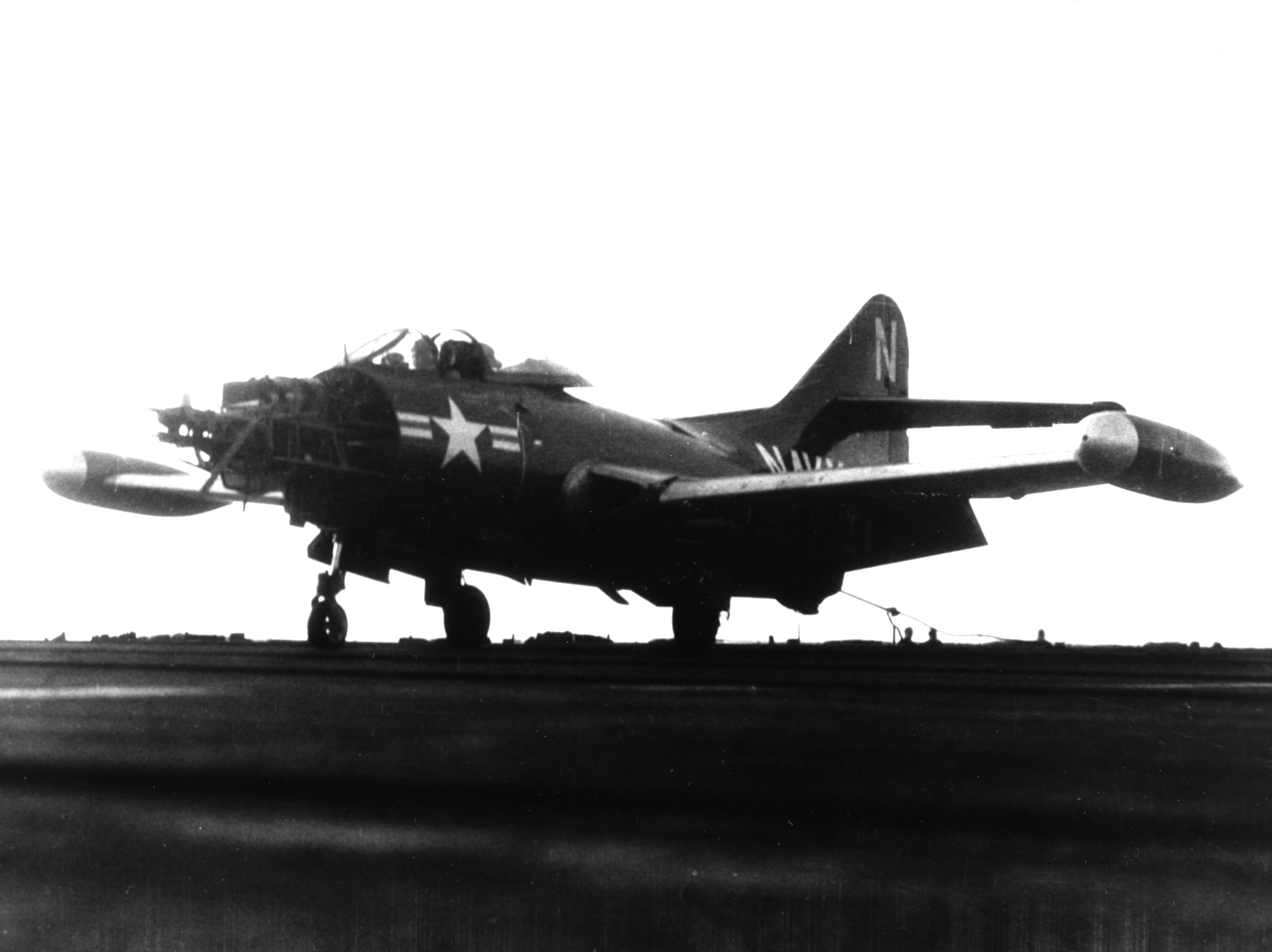 Lt(JG) Hugh N. Batten from Fighter Squadron 91 (VF-91) "Red Lightnings" lands his damaged Grumman F9F-2 Panther (BuNo 123615) aboard the U.S. Navy aircraft carrier USS Philippine Sea (CVA-47) after it was hit by enemy anti-aircraft fire on 12 July 1953. The plane's nose covering has been entirely torn away. VF-91 was assigned to Carrier Air Group 9 (CVG-9) aboard the Philippine Sea for a deployment to the Western Pacific and Korea from 15 December 1952 to 14 August 1953.